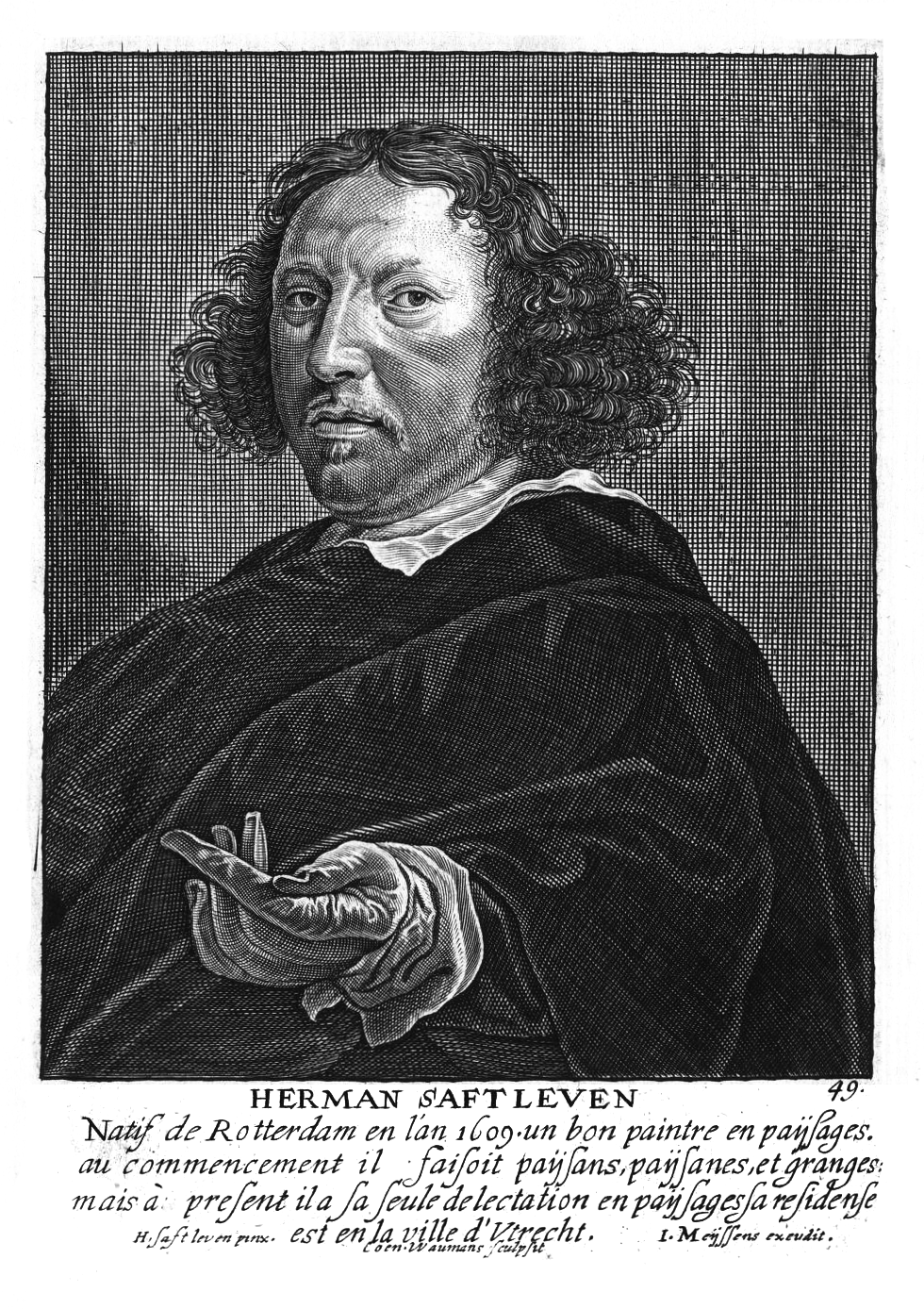 Portrait of Herman Saftleven in Cornelis de Bie's Gulden Cabinet.